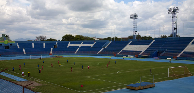 Estadio Nacional Jorge Mágico González